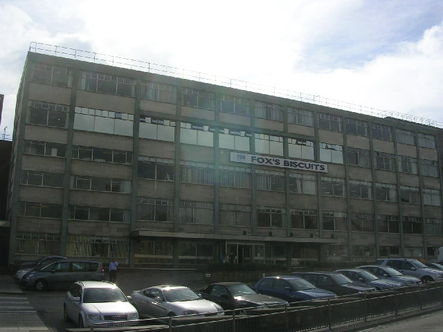 Fox's Biscuits Factory, Batley. You can smell the chocolate and caramel in the air as you approach it, and before you even see it!